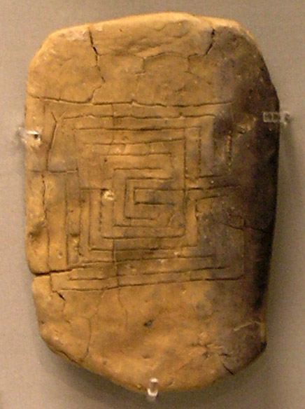 Reverse of a clay tablet from Pylos bearing the motif of the Labyrinth. The tablet, the earliest datable representation of the 7-course classical labyrinth, was recovered from the remains of the Mycenaean palace of Pylos, destroyed by fire ca 1200 BCE (Kern, Through the Labyrinth, Prestel, 2000, p. 73, catalog item 103–104). There is no evidence for a connection between the labyrinth design and the legend of Theseus at this early date.